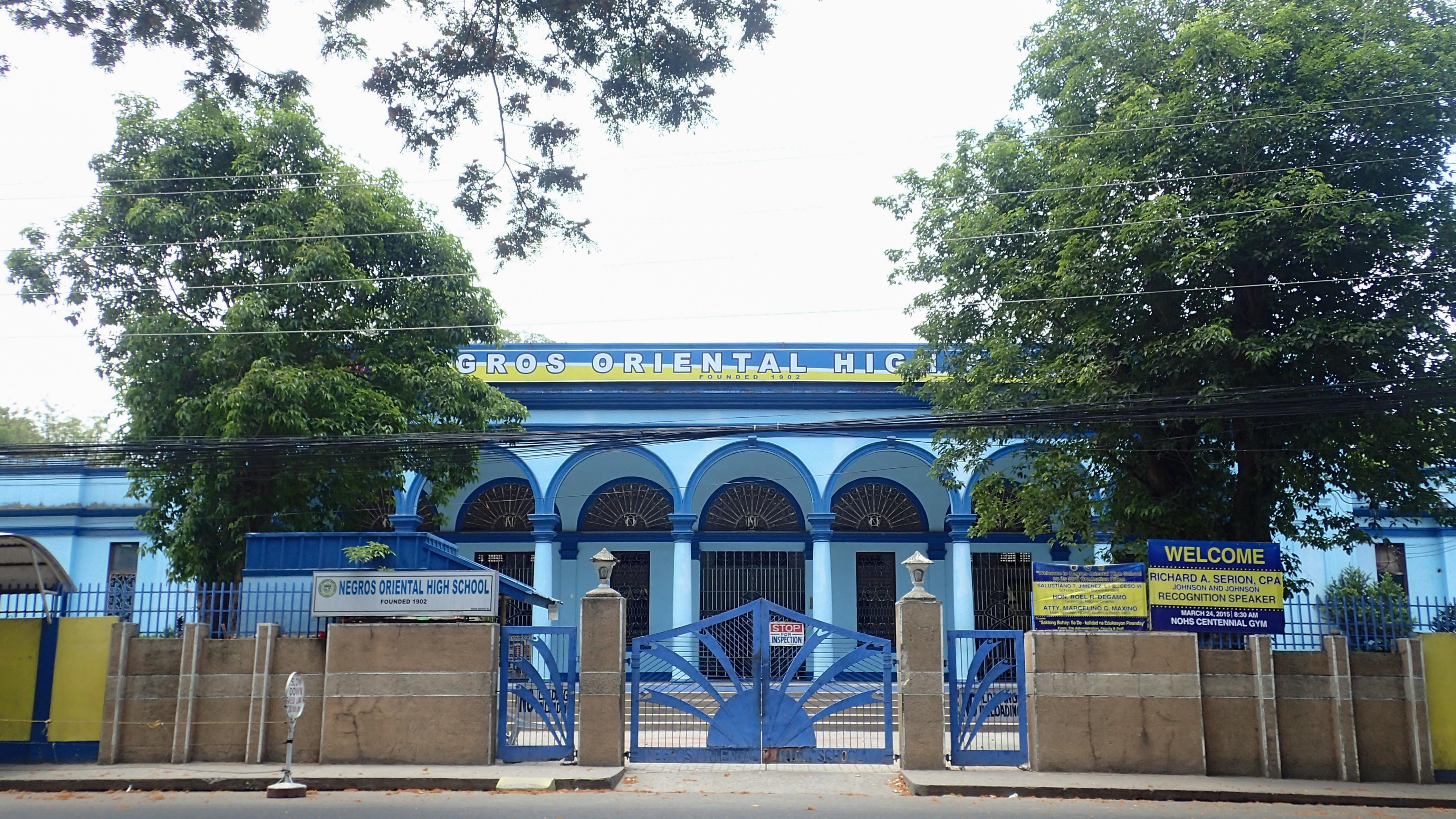 Front facade of the school showing the arcaded facade